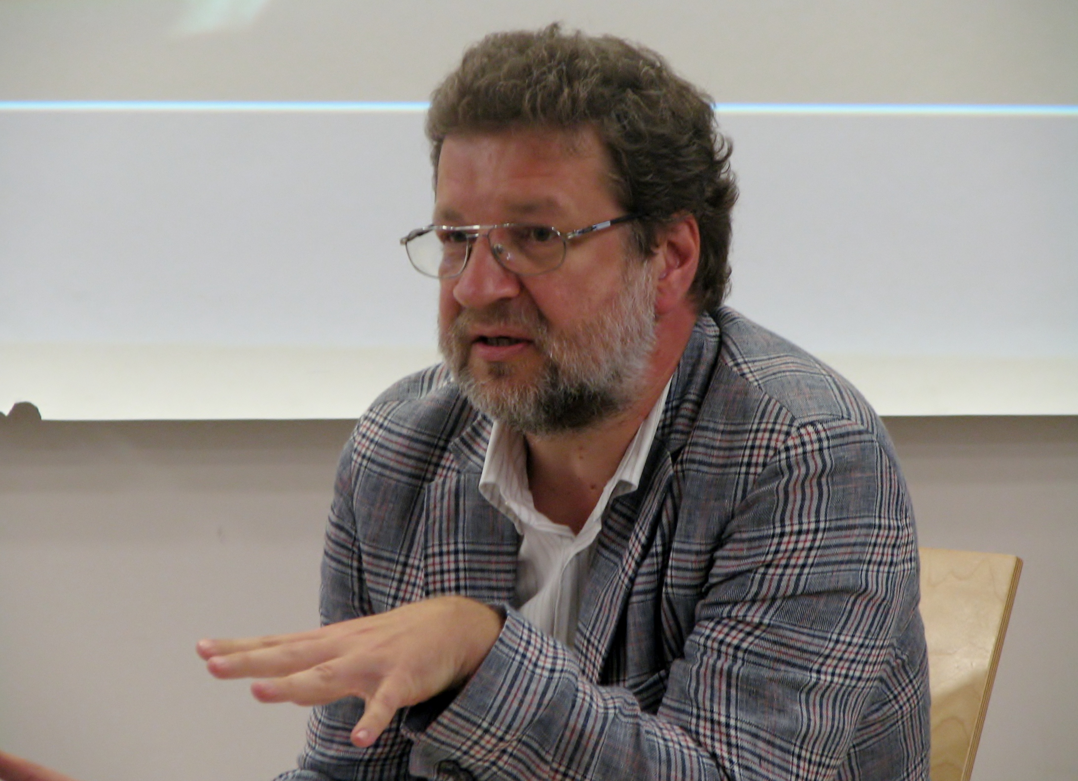 Rein Raud performing in academic conference dedicated to Mihhail Lotman's 60th birthday